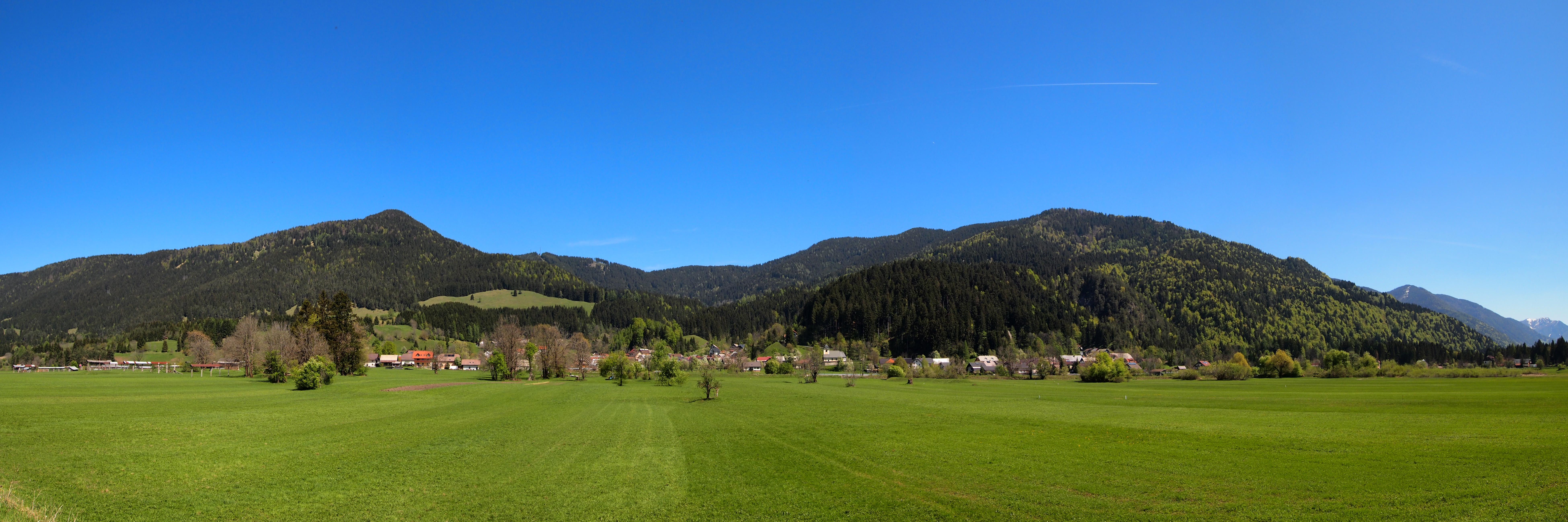 View in Rateče. This photograph was taken with an Olympus E-PL1